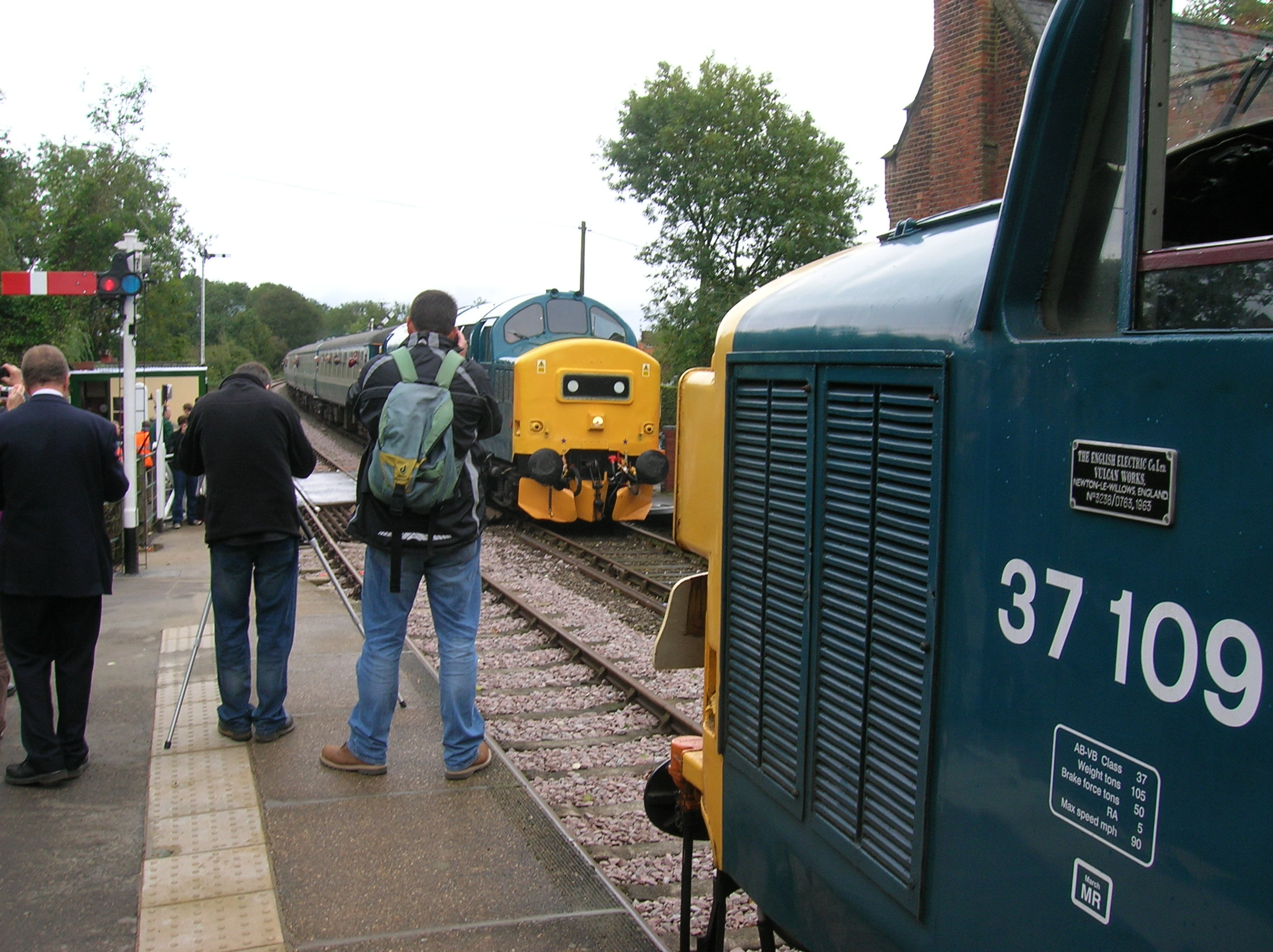 Class 37 hauled trains passing at Thuxton on the Mid-Norfolk Railwlay